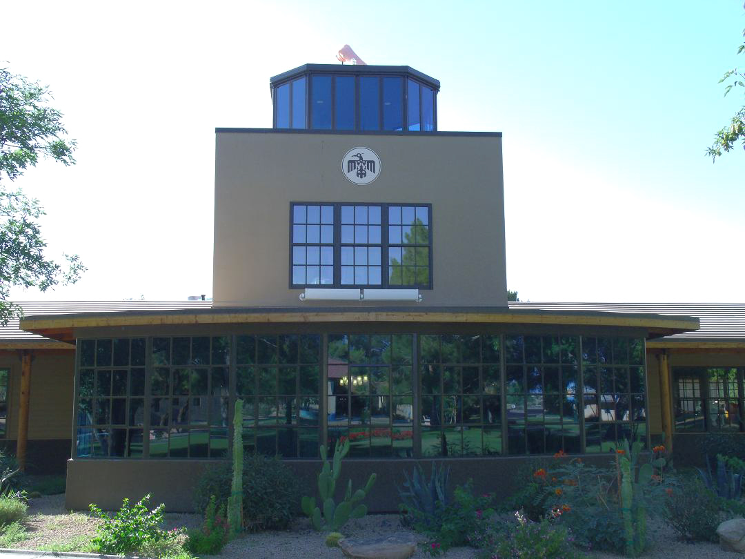 The historic Thunderbird Control Tower was built in 1941 and served as the Air Control Tower and Officers' quarters during the operation of the Thunderbird 1 Army Air Field, in Glendale, Arizona, where American, British, Canadian and Chinese pilots trained during WWII. The air field was deactivated in 1945 and is now occupied by the Thunderbird School of Global Management which is located southeast of the intersection of West Greenway Road & North 59th Avenue in Glendale, Arizona.